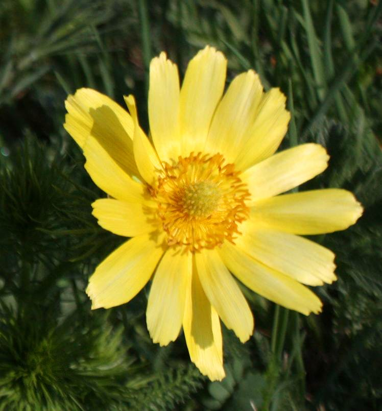 Spring Pheasant's Eye Adonis vernalis is a perennial flowering plant found in dry meadows and steppes in Eurasia. Duben 2009 , Brno